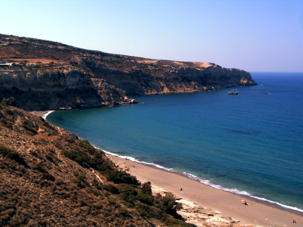 Description: Komos Beach on the south coast of Crete, near Matala Source: Own photo. Crete, 2004 Photographer: Arne Nordmann (norro), Germany